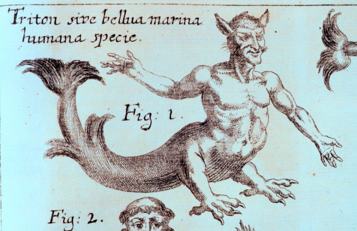 "Triton sive bellua marina humana specie. Fig: 1." (Translation: Triton, that is, a sea monster of the human kind). Apparently a merman or carnivore of sorts combination. The feet look dangerous. In: "Specula physico-mathematico-historica ...." by Johann Zahn. 1696 Library Call Number Q155 .Z33 1696.